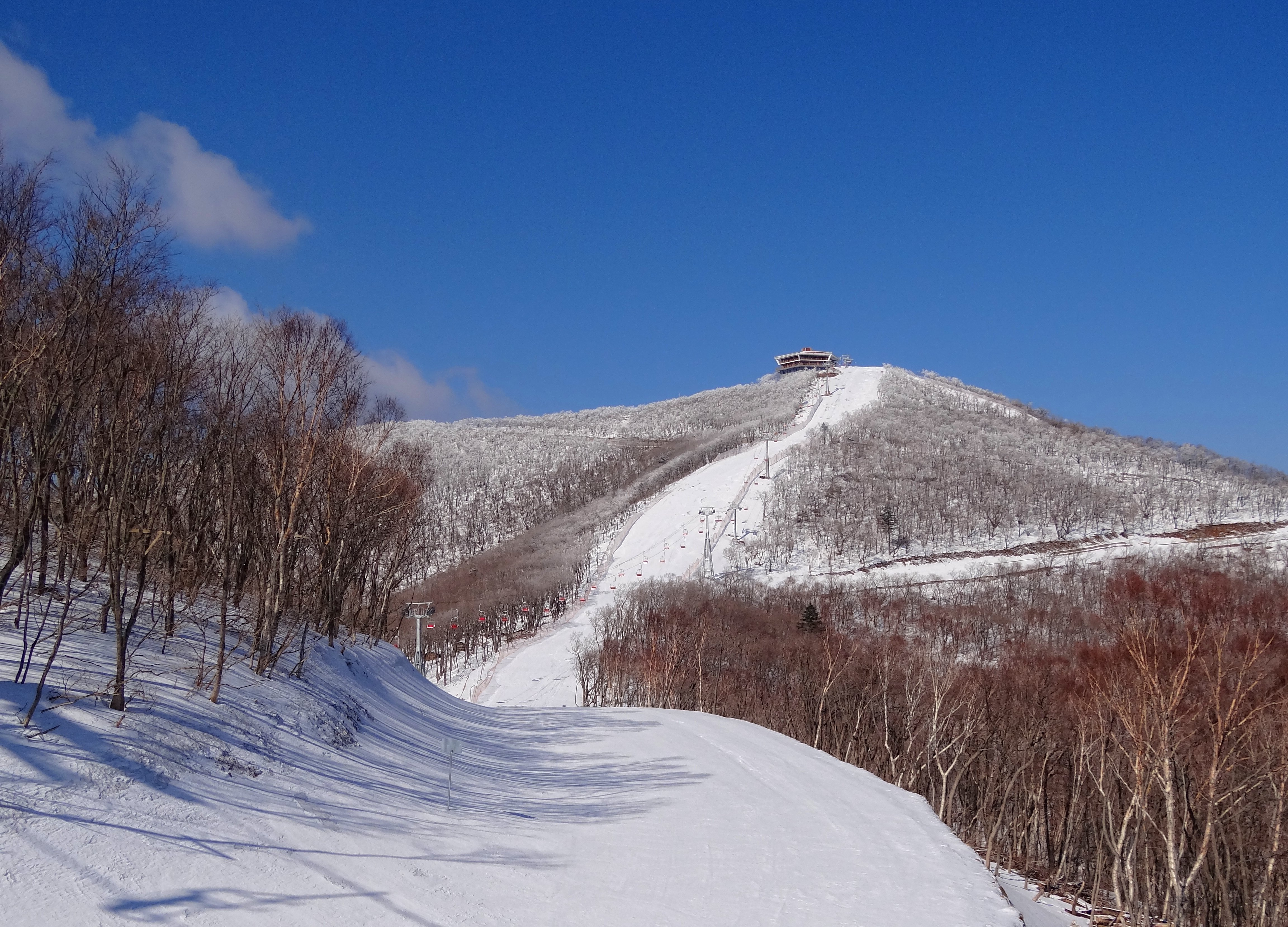 Taehwa Peak, the highest point at the Masikryong Ski Resort, photographed from about midway in the second of three ski lifts needed to bring you from the bottom of the slopes to the top.